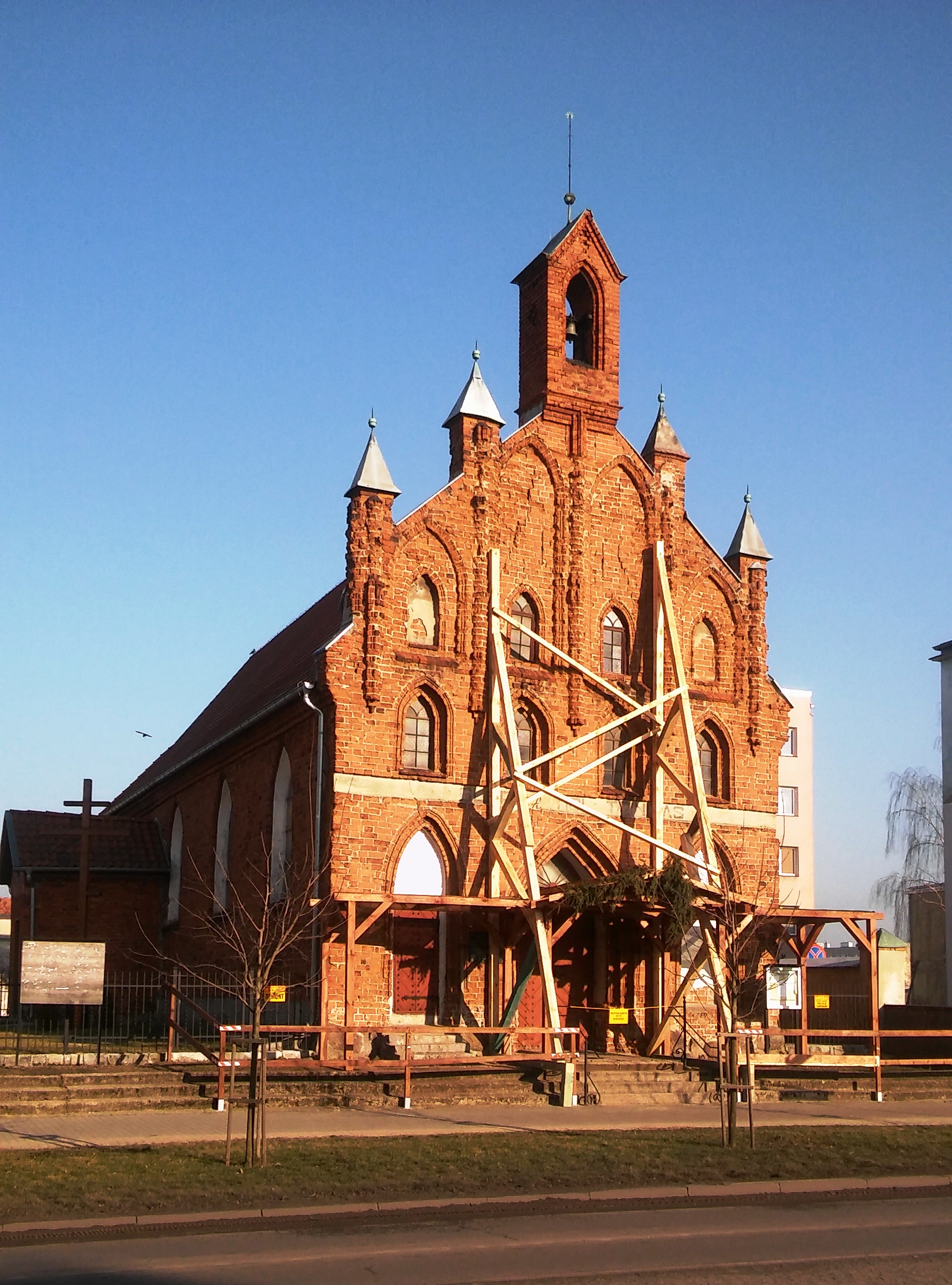 Cerkiew św. Trójcy w Braniewie